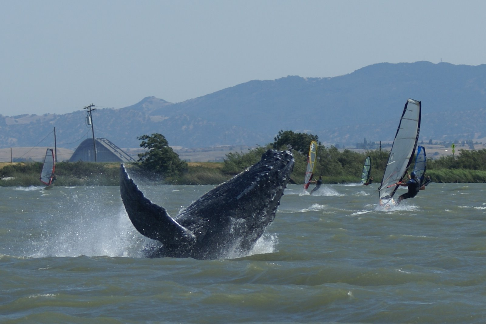 The humpback whale calf nicknamed "Dawn" breaches with windsurfers off of Sherman Island in the Sacramento River. This humpback and her mother, nicknamed "Delta", strayed 90 miles up the Sacramento River in May 2007. They had both been injured, apparently by a boat keel. The Antioch Bridge is visible in the background.